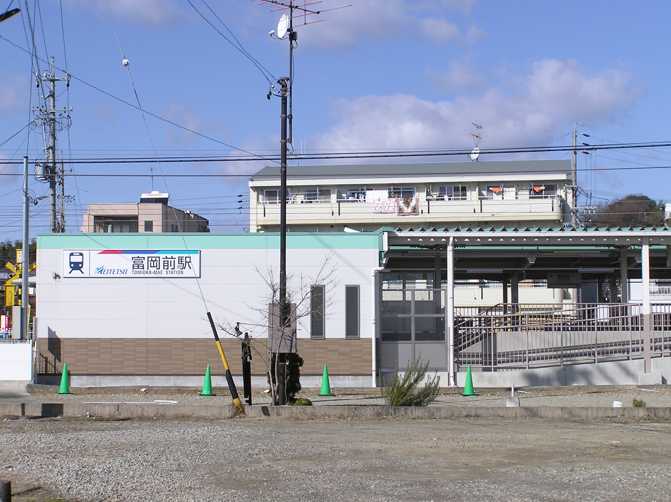 Meitetsu Tomiokamae Station